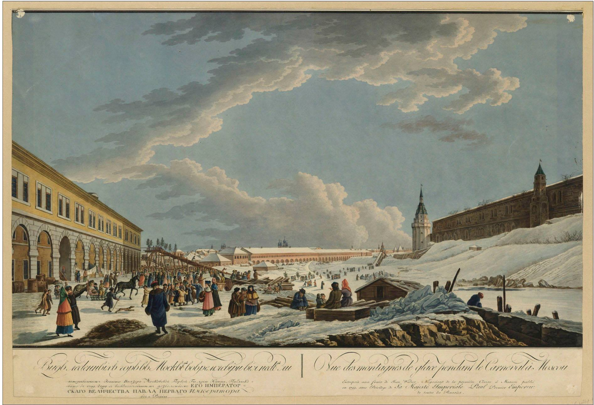 Plate 10 from the definitive Twelve Views of Moscow by De la Barthe. This is one of many different hand-coloured copies.